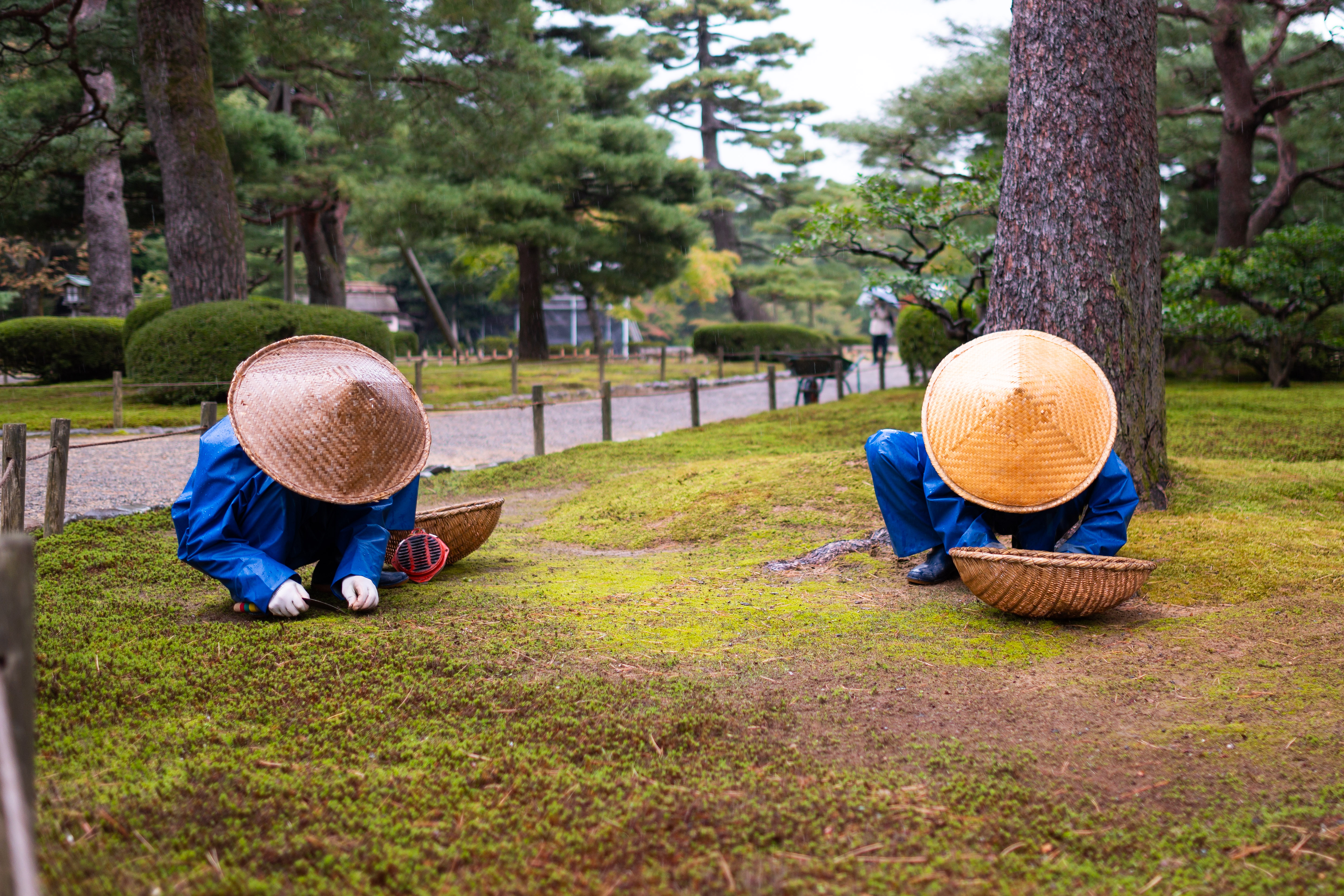 Gardeners under the rain, in Keoruken-en garden, Kanazawa, Ishikawa prefecture, Japan.